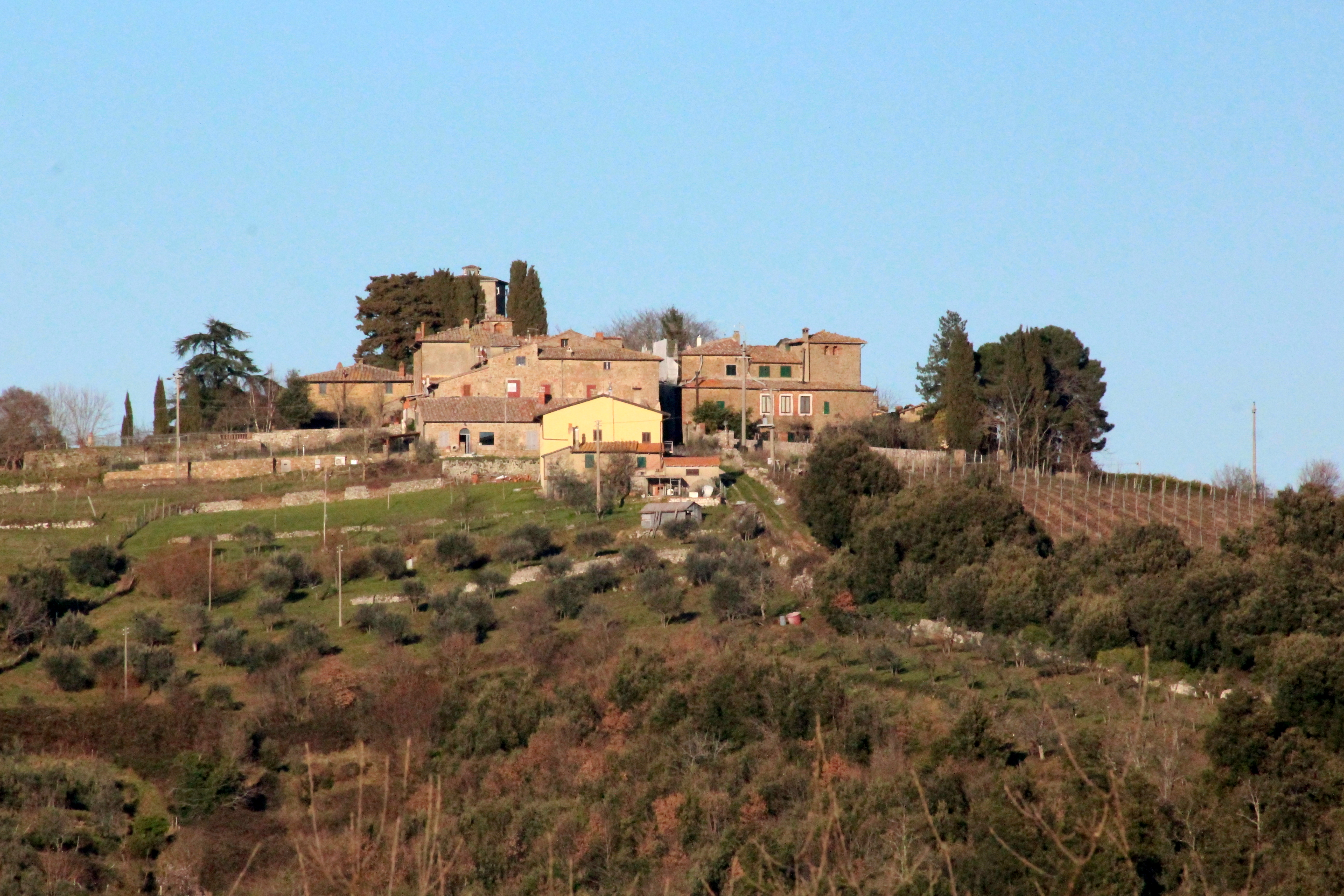 Panorama of Palazzuolo Alto, hamlet of Monte San Savino, Province of Arezzo, Tuscany, Italy